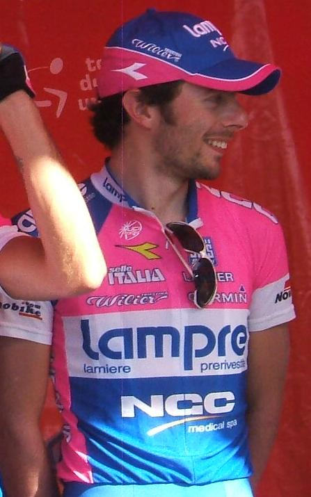 Named cyclist at the en:2009 Tour Down Under team presentation